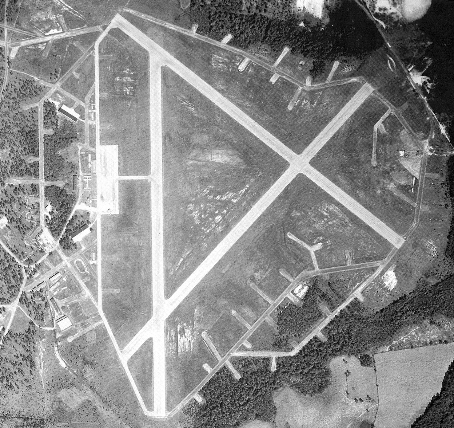 Airphoto of Waycross Army Airfield, Georgia